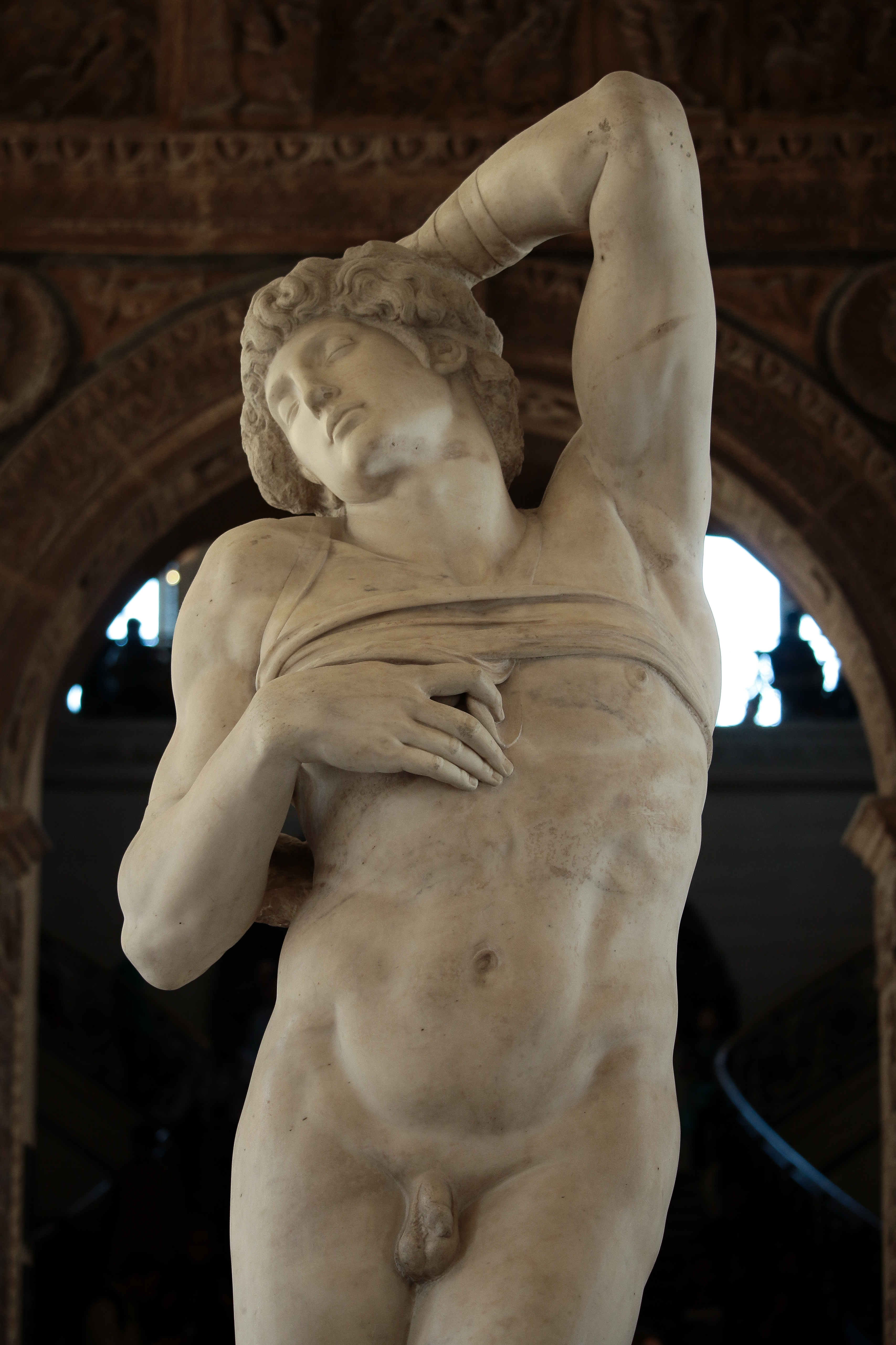 Michelangelo: Dying Slave for the Tomb of Julius II., c. 1513-15, Paris, Louvre